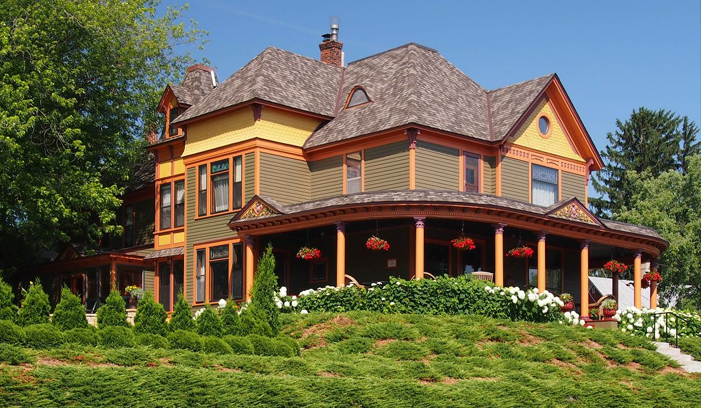 William Sauntry House, 626 N 4th St, Stillwater, Minnesota, USA. Viewed from the east-southeast, lightly corrected for tilt distortion.